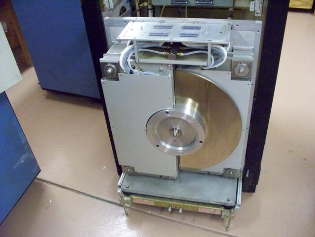 DAD head-per-track disk drive for SDS Sigma computer systems (unidentified model)